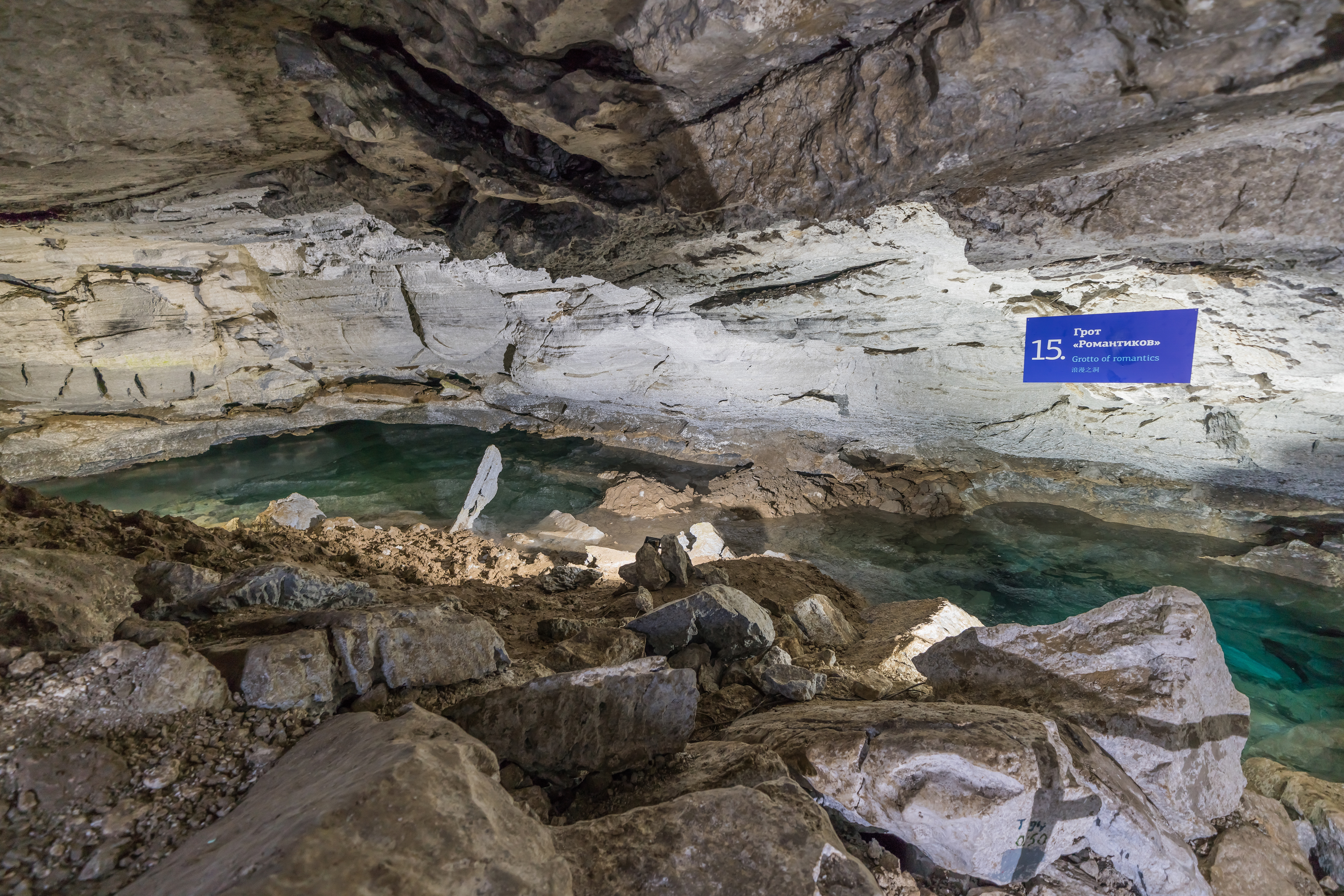 Romantics' Grotto of the Ice Cave in Kungur, Perm Krai, Russia